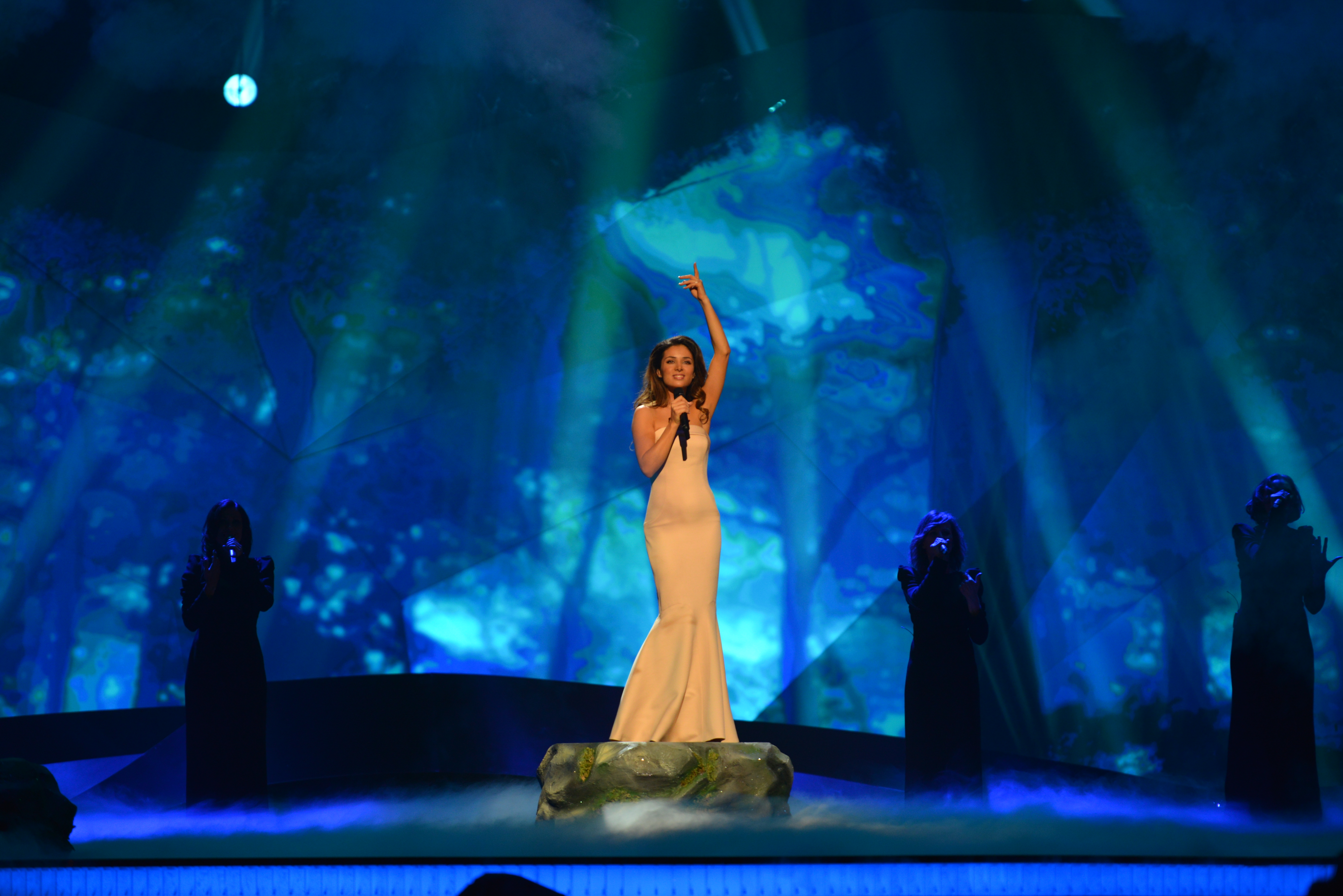 Zlata Ognevich representing Ukraine with the song "Gravity" during the first dress rehearsal of the first semi final of the Eurovision Song Contest 2013 Malmö. (Help translate this text)